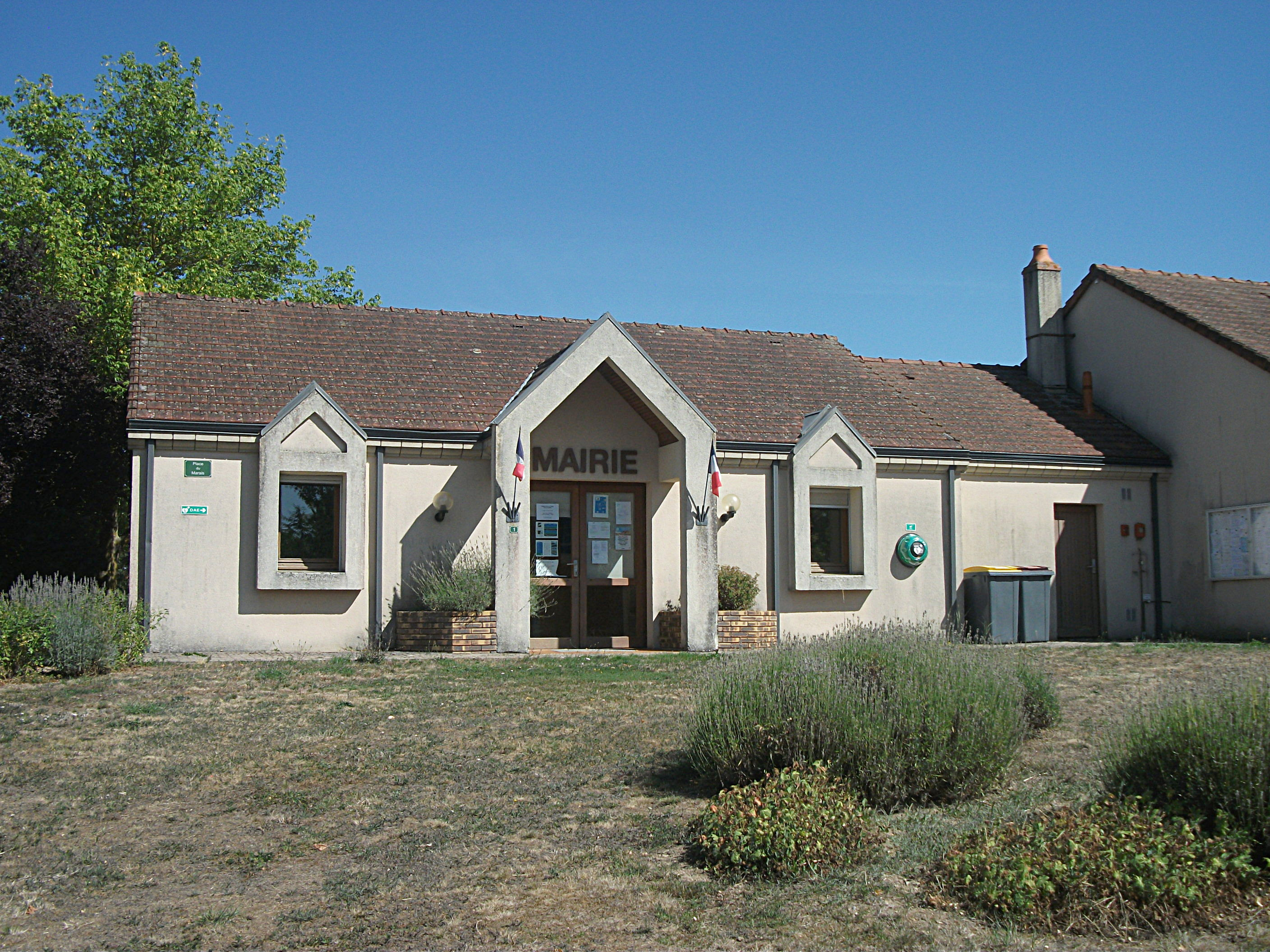 Town hall of Vernusse, Allier, Auvergne-Rhône-Alpes, France. [18992]